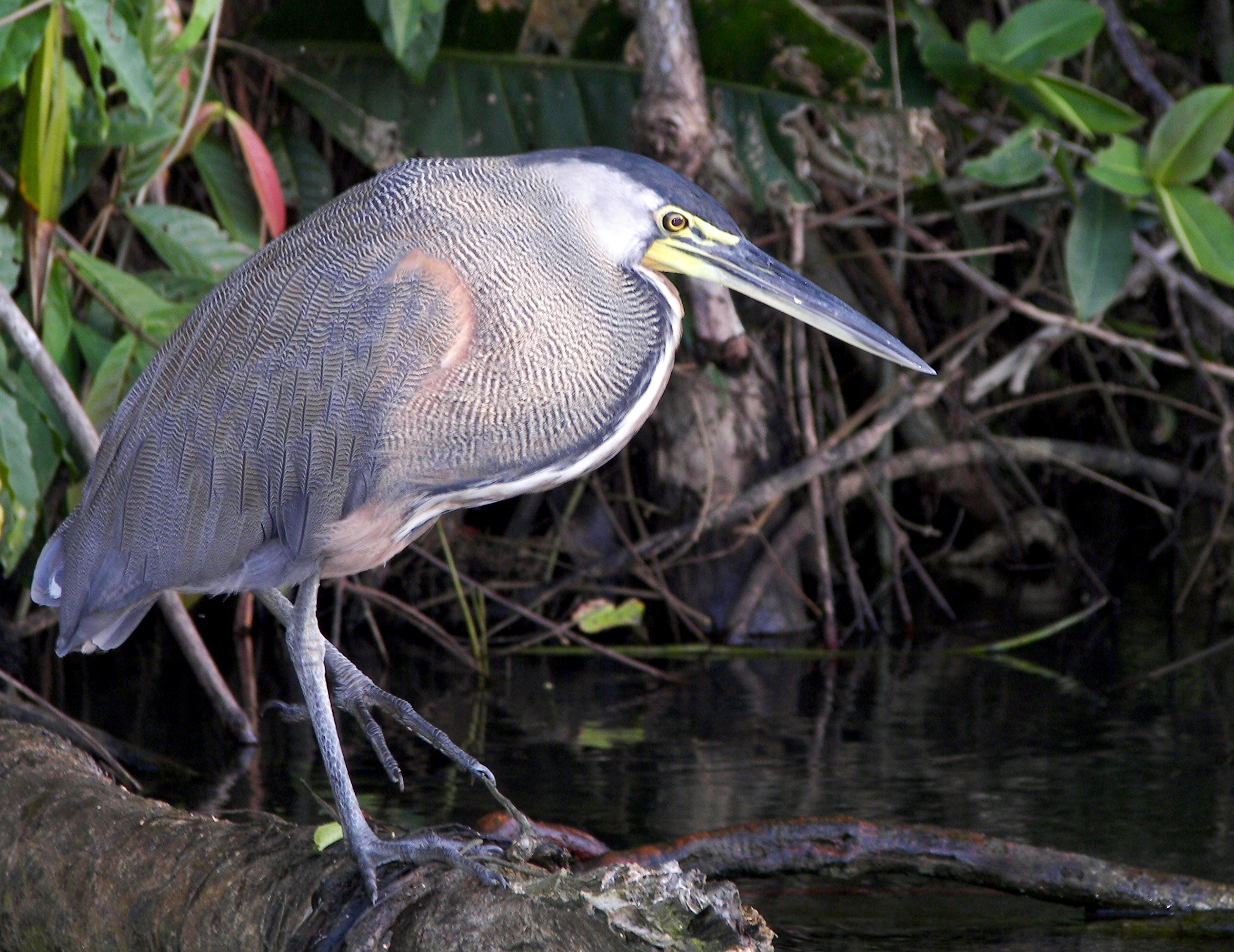 Bare-throated Tiger Heron Tigrisoma mexicanum in its natural environment at the Tortuguero National Park, Costa Rica